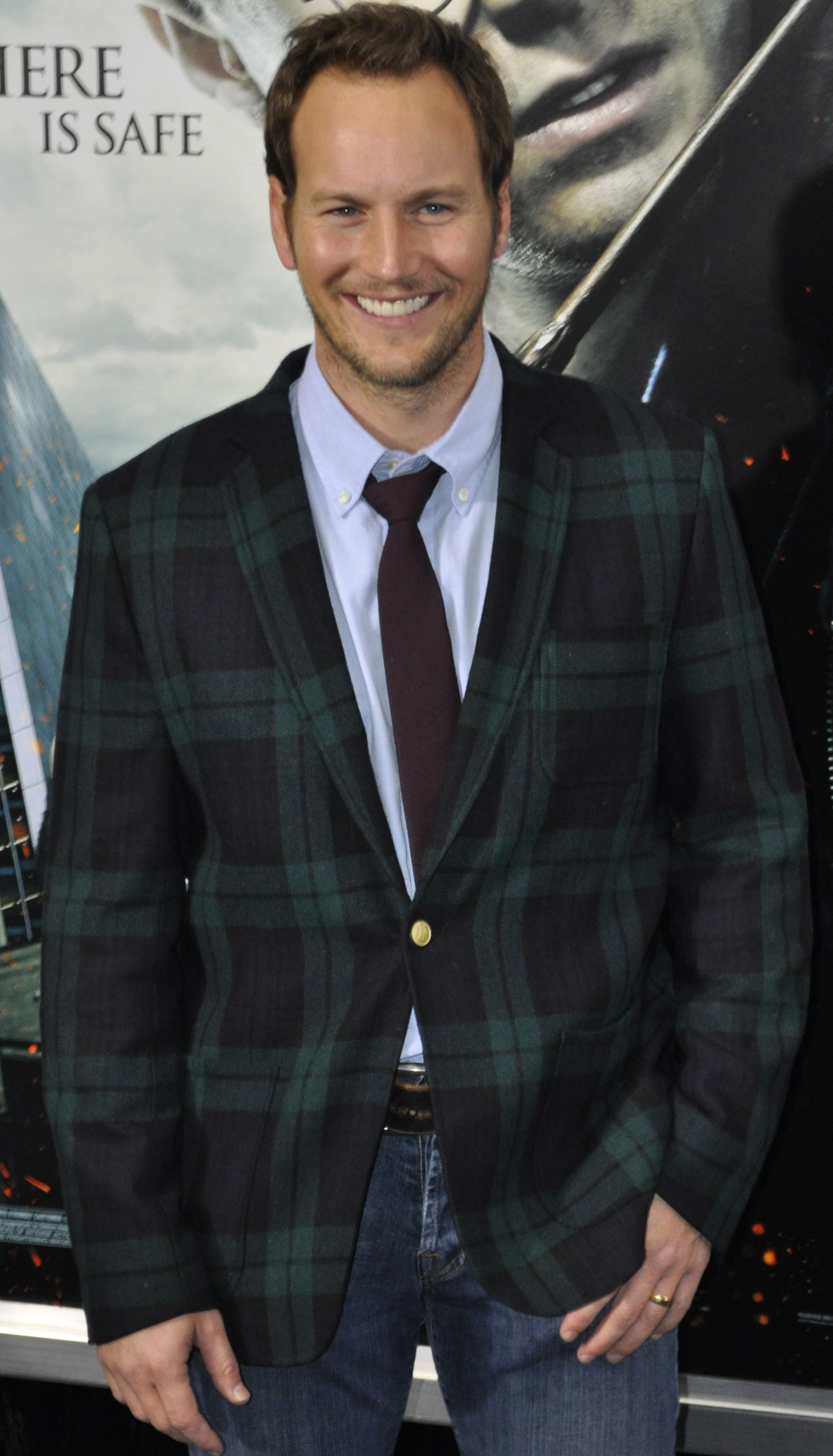 Patrick Wilson at the film premiere of Harry Potter and The Deathly Hallows in Alice Tully Center, New York City in November 2010.